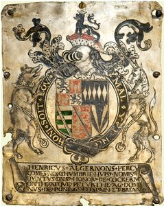 Garter plate of Henry Percy, 5th Earl of Northumberland (1477-1527) nominated 1499. Arms quarterly of five: 1: or a lion rampant azure (Percy) quartering gules three lucies argent (Lucy) 2: azure five fusils conjoined in fess or (Percy ancient); 3: barry of six, or and vert, a bend gules (Poynings); 4: gules three lions passant argent debruised by a bendlet azure (FitzPayn); 5: or three piles conjoined at the base azure (Bryan).